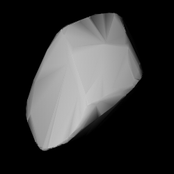 3D convex shape model of 867 Kovacia, computed using light curve inversion techniques. J. Hanuš, J. Ďurech, M. Brož, B. D. Warner (June 2011). "A study of asteroid pole-latitude distribution based on an extended set of shape models derived by the lightcurve inversion method". Astronomy and Astrophysics 530: A134. ISSN 0004-6361. arXiv